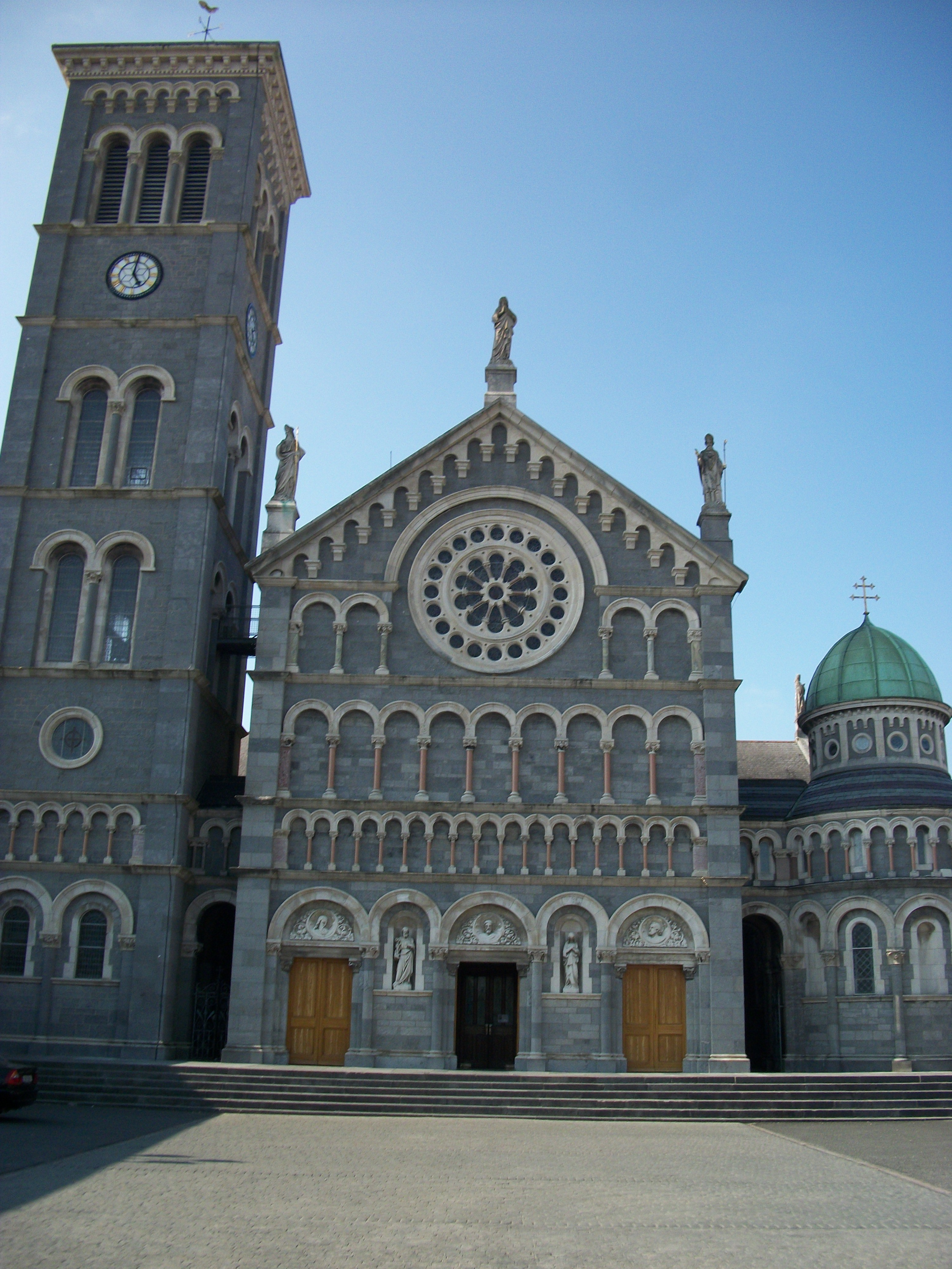 A photograph of the Cathedral in Thurles